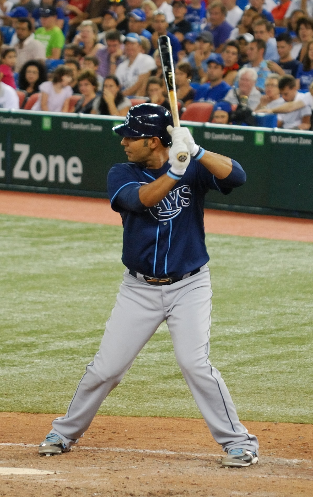 Pena awaits the pitch.